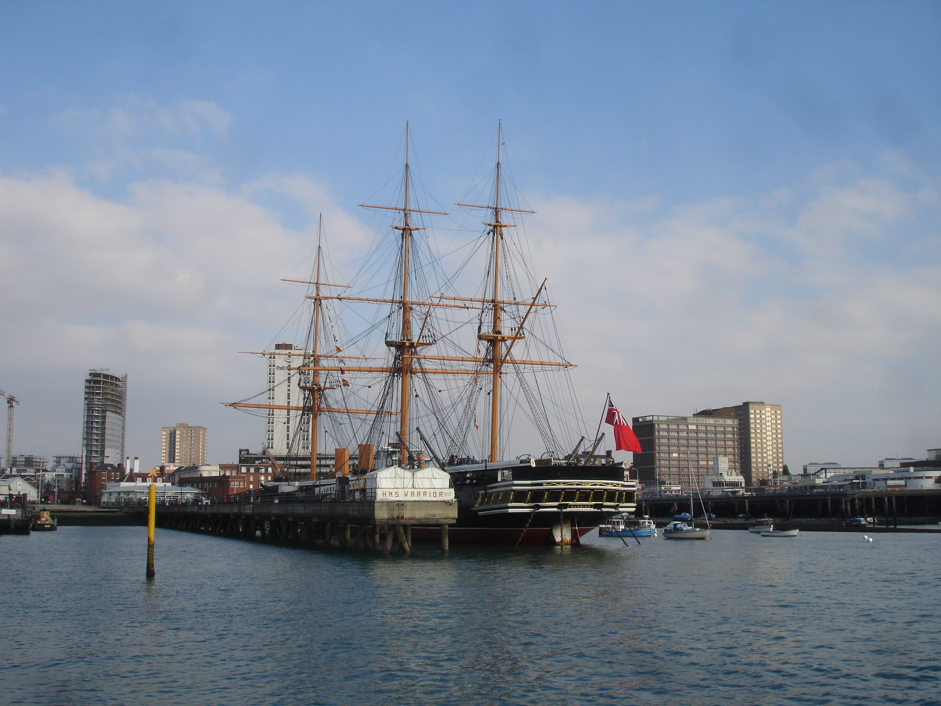 HMS Warrior preserved at the Historic Dock, Portsmouth.